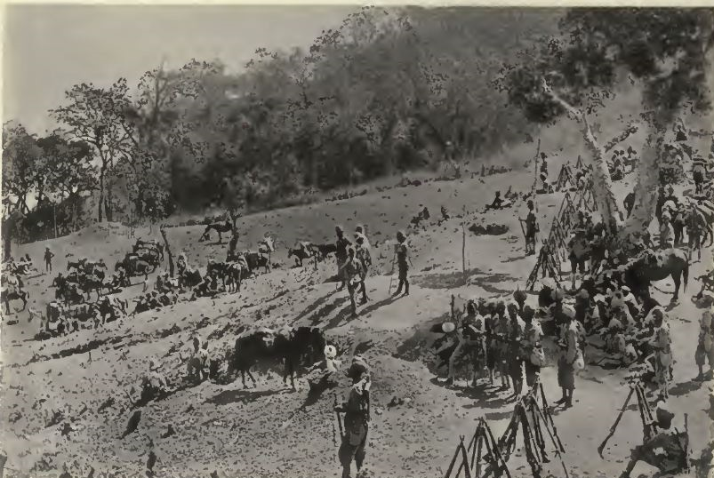 British Column Halted Previous to Final Advance on Fahlam